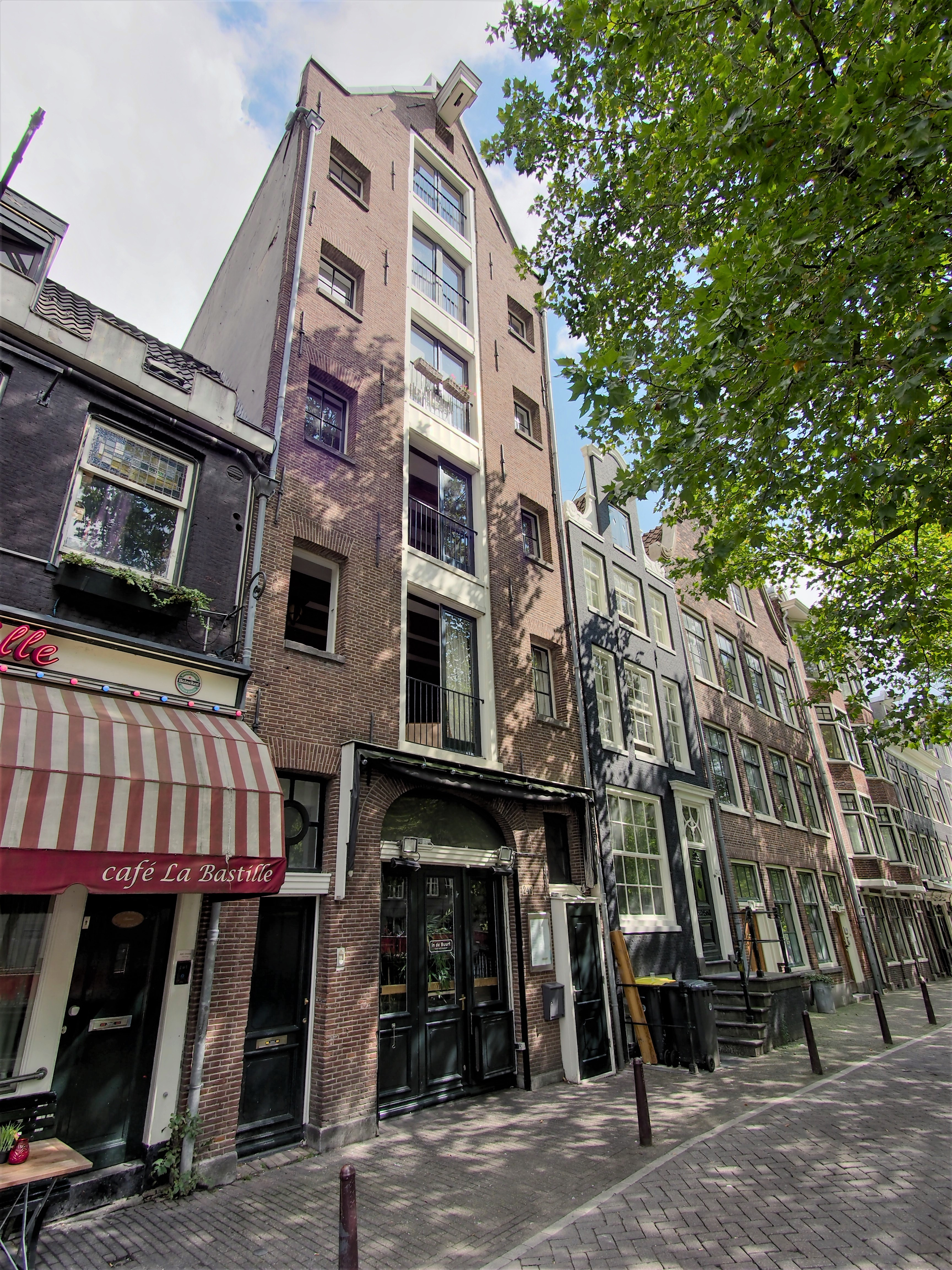 Photographed at Amsterdam, The Netherlands.